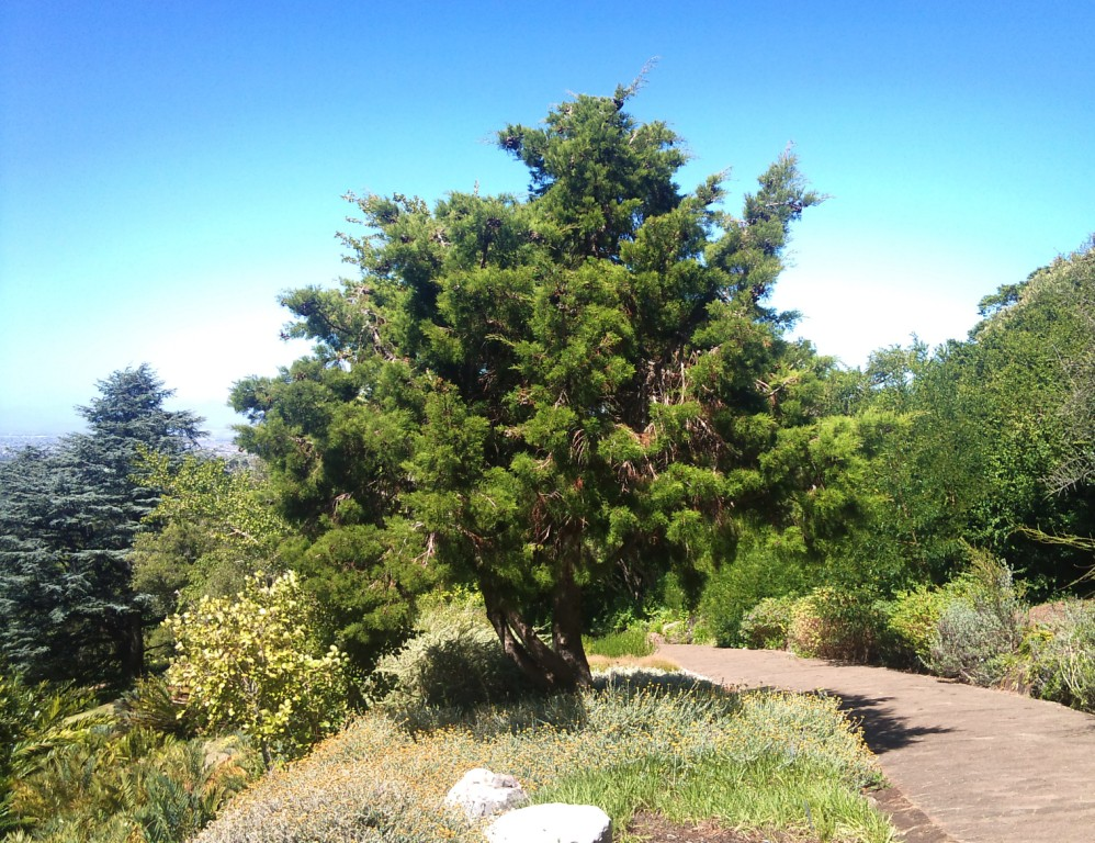 Widdringtonia nodiflora